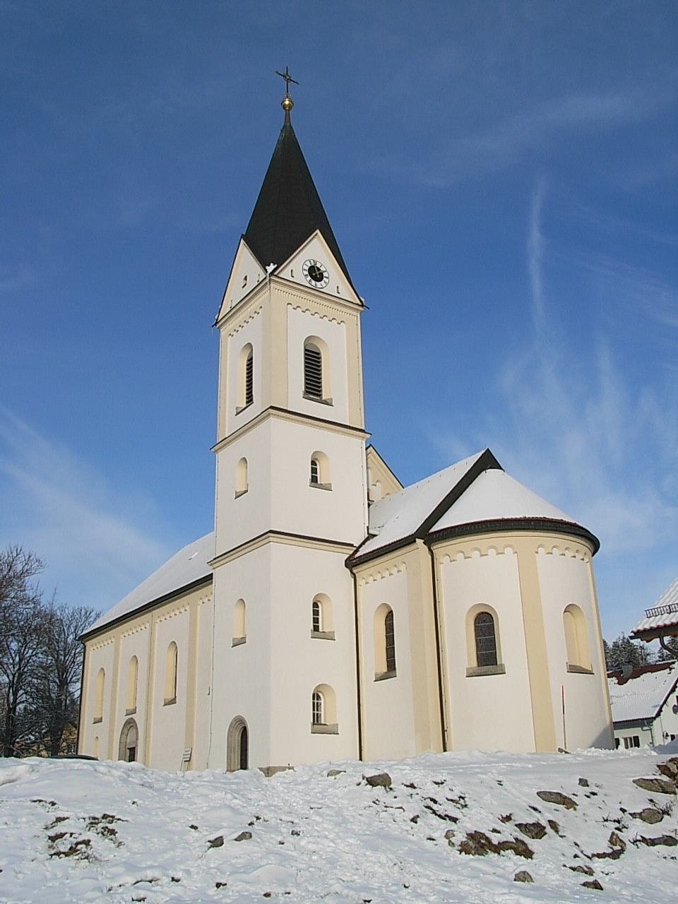 Ludwigsthal, Parish Church of the Sacred Heart from south-west.